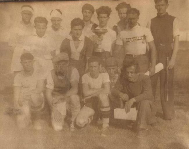 Taq Dafa me ekipn e futbollit te qytetit te Durresit